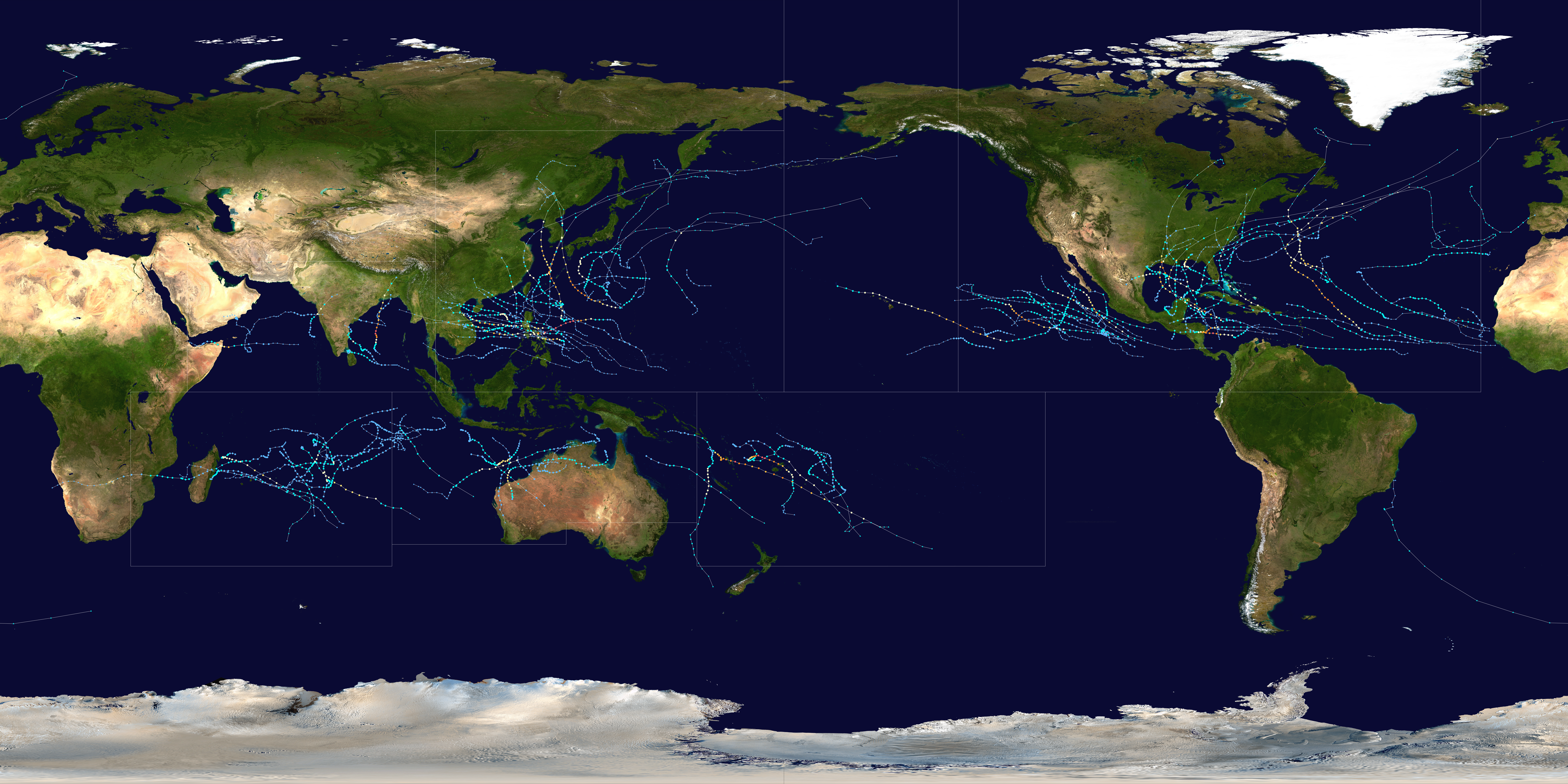 Tropical cyclones worldwide in 2020